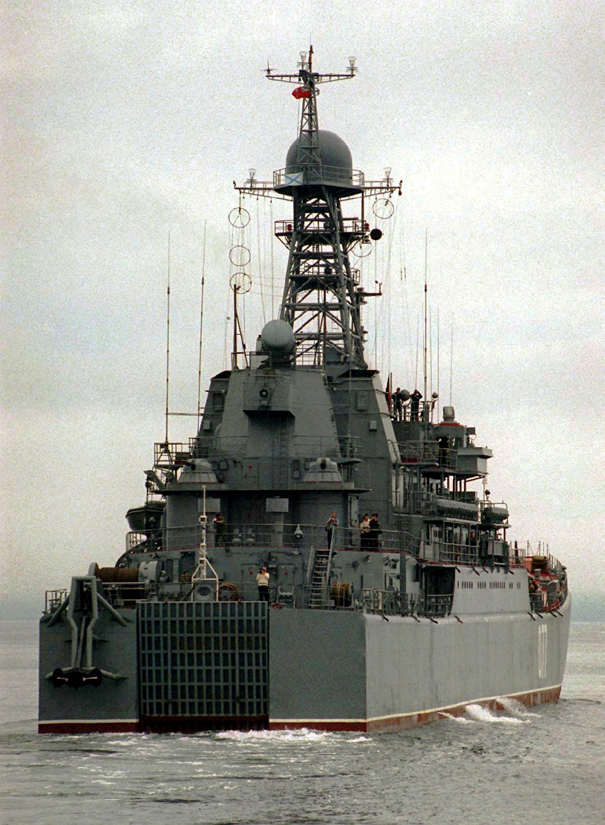 A Russian Ropucha II Class (Type B 23) Landing Ship, Tank sails off the shores of Vladivostok, Russia, during Exercise COOPERATION FROM THE SEA '96. The exercise is a joint venture between US and Russian naval forces designed to improve disaster-relief operations and to further understanding between the two nations.